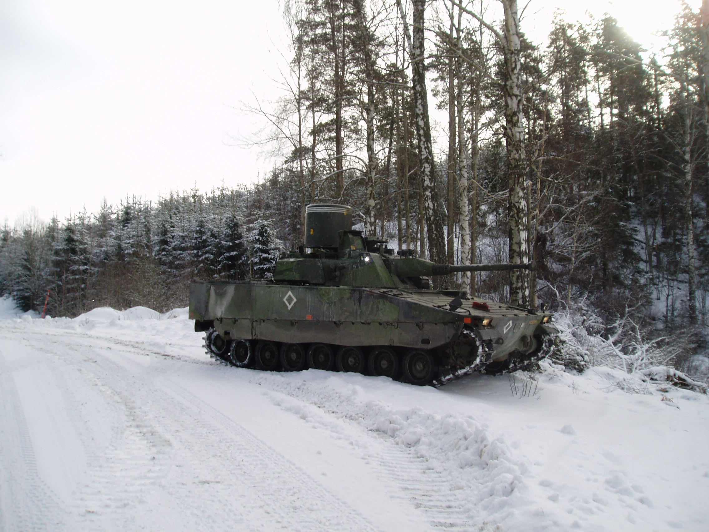 A Swedish CV9040 AAV - Anti-Air Vehicle. Ett svensk Strf 9040 LVKV - Luftvärnskanonvagn. Photo taken by BS from P18 in 2005, and therefore free to use.